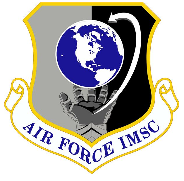 Air Force Installation and Mission Support Center emblem